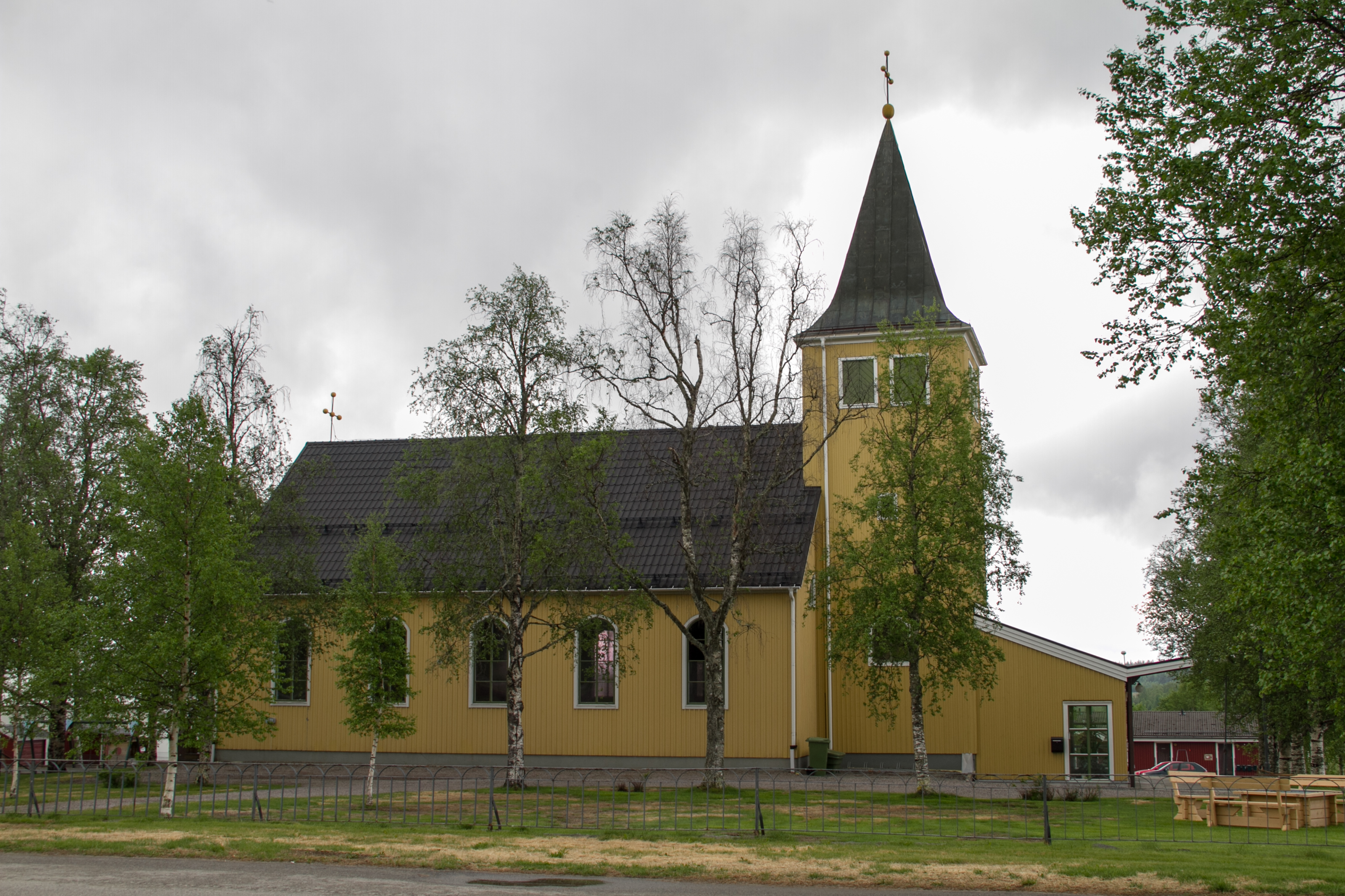 Glommersträsk kyrka in Arvidsjaur municipality, Norrbotten county, Sweden